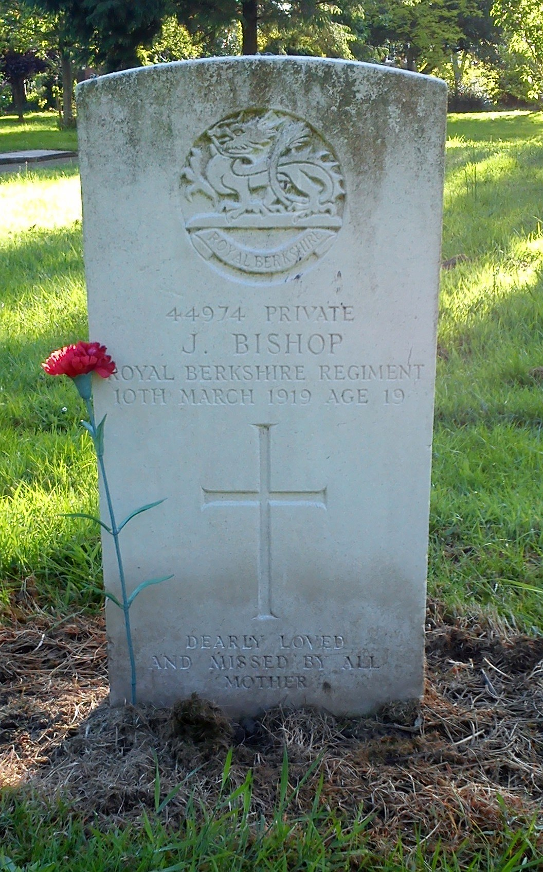 Commonwealth War Graves Commission headstone in Bromsgrove Cemetery, Worcestershire. Pte J Bishop, Royal Berkshire Regiment, who died 10 March 1919, aged 19.